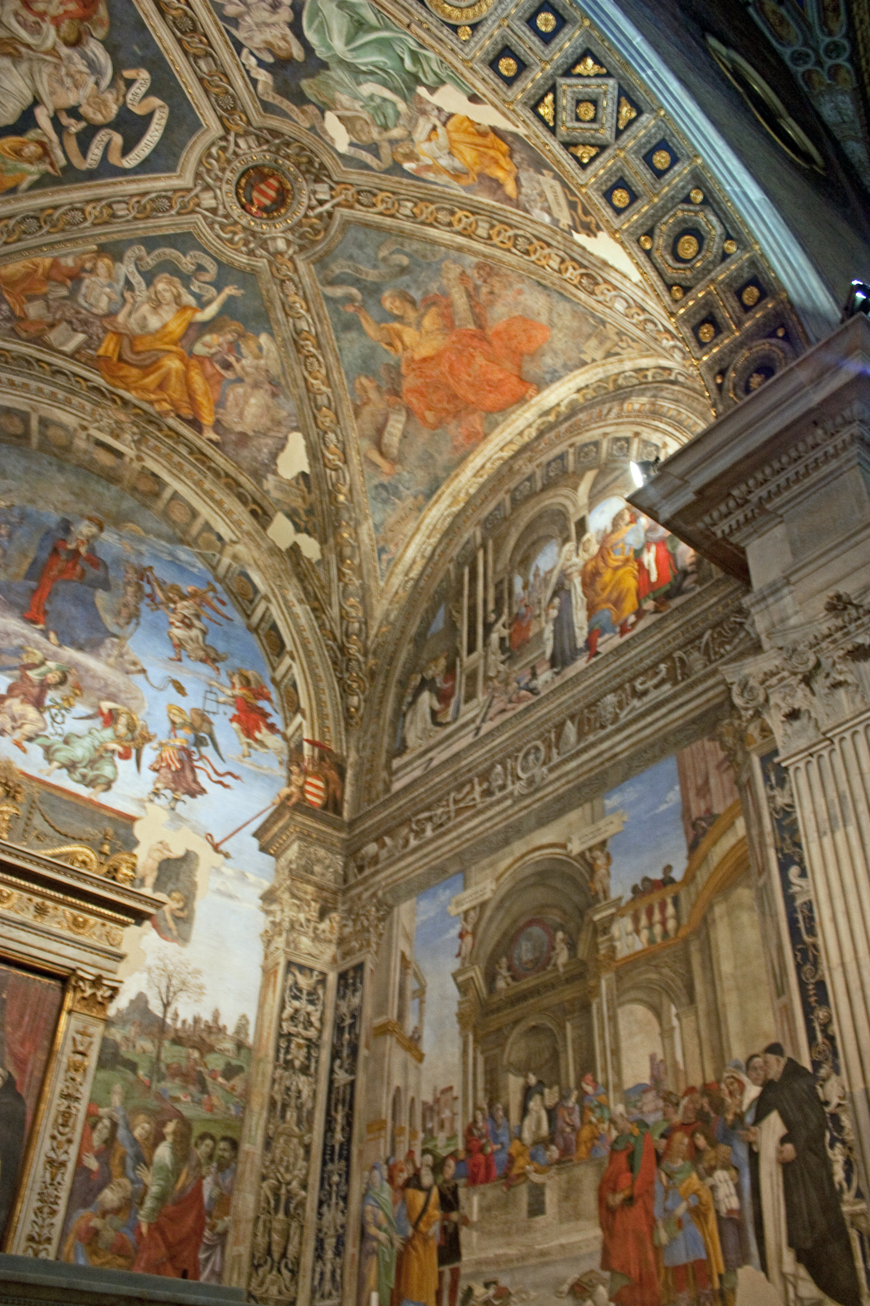 Right side of the Carafa chapel, Santa Maria sopra Minerva in Rome, Italy.